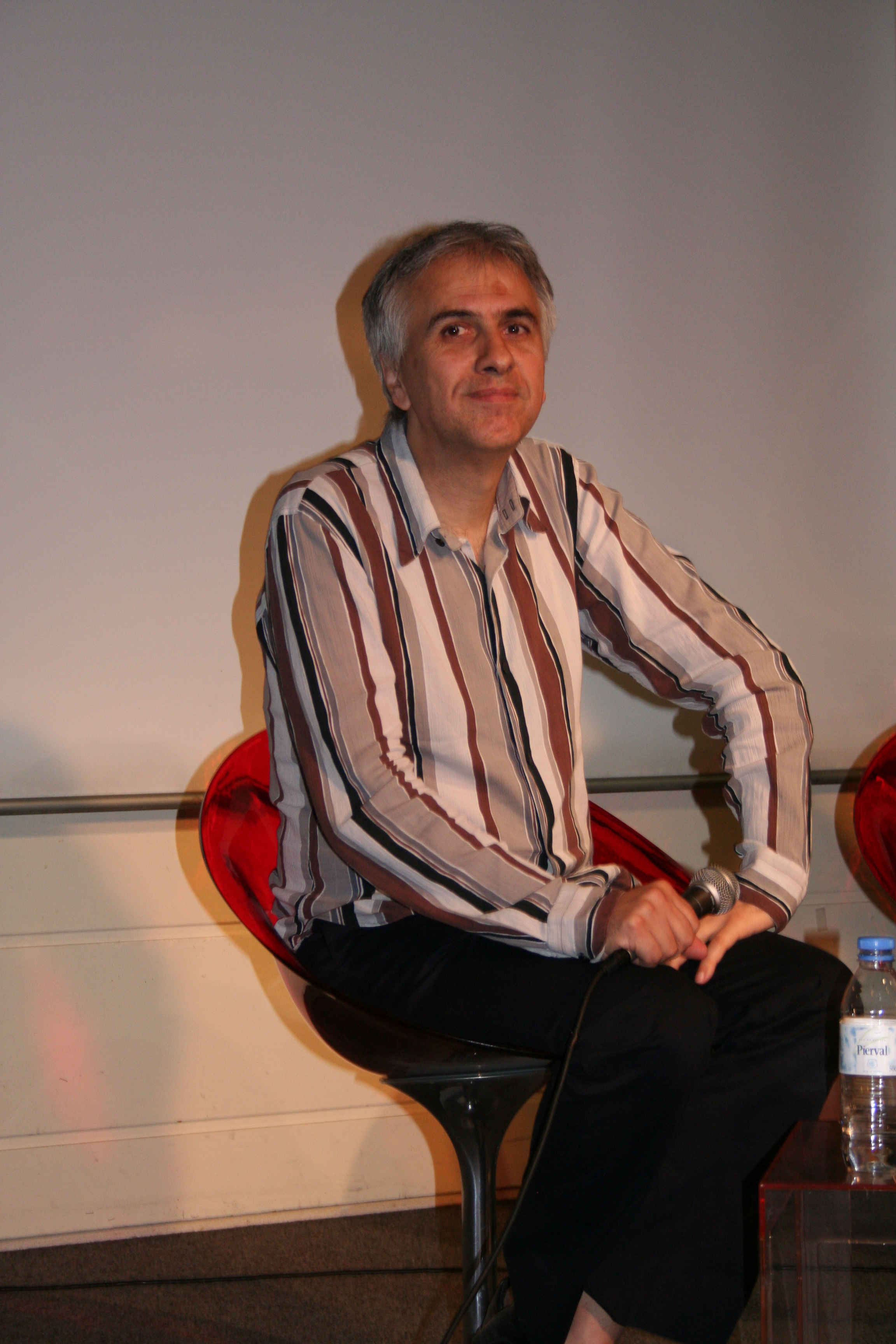 Rendezvous with Bruno Coulais at Fnac des Halles (Paris, France).